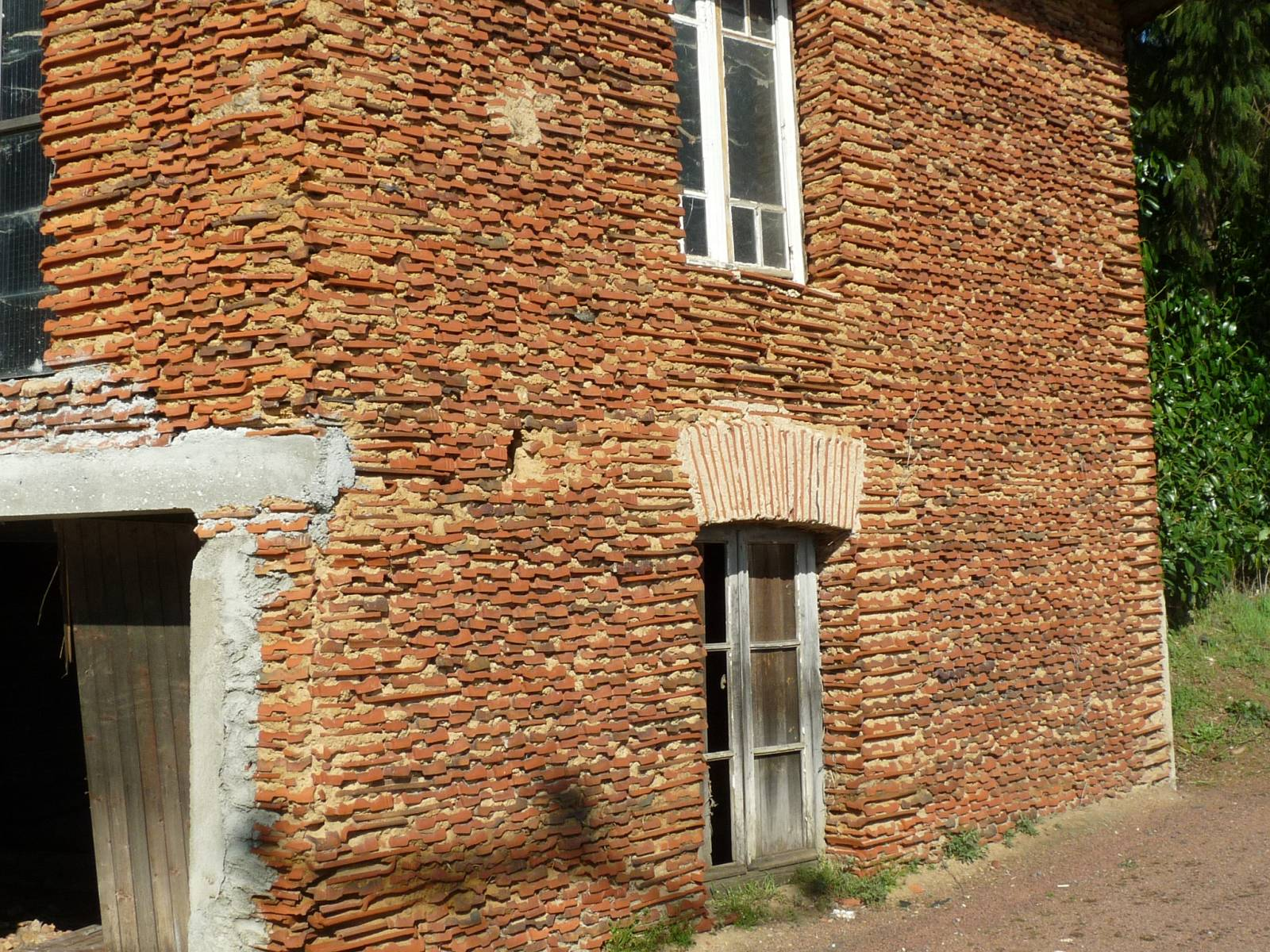 old house made of tiles